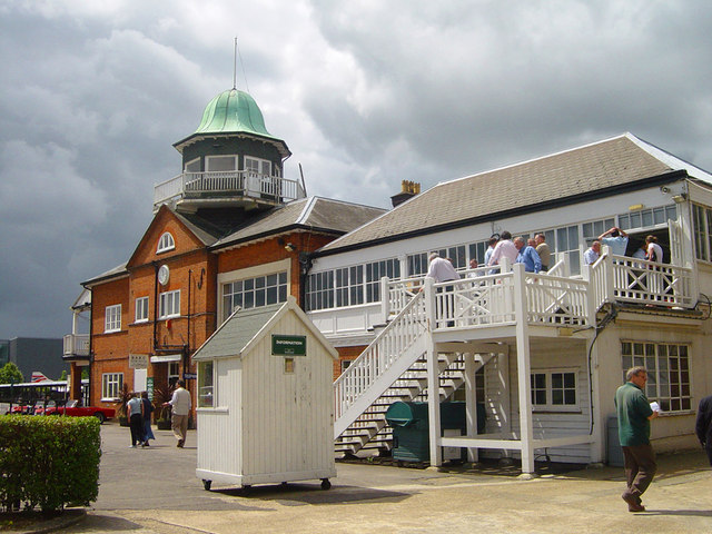 The Club House Brooklands This is the clubhouse from where the wealthy and influential would watch motor car racing in the 1920's at Brooklands. Brooklands was developed in 1907 by Hugh Locke King, a wealthy landowner.